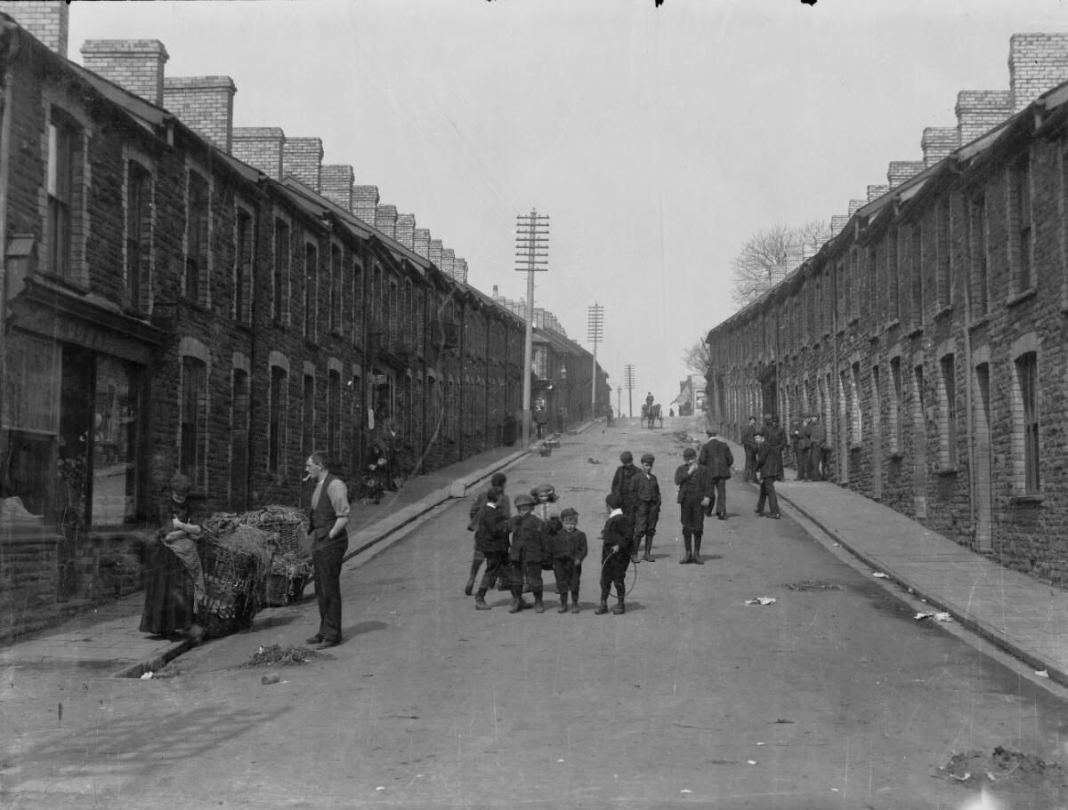 Photograph from the Martin Ridley Collection, which documents the towns and villages of South Wales c.1900-1910